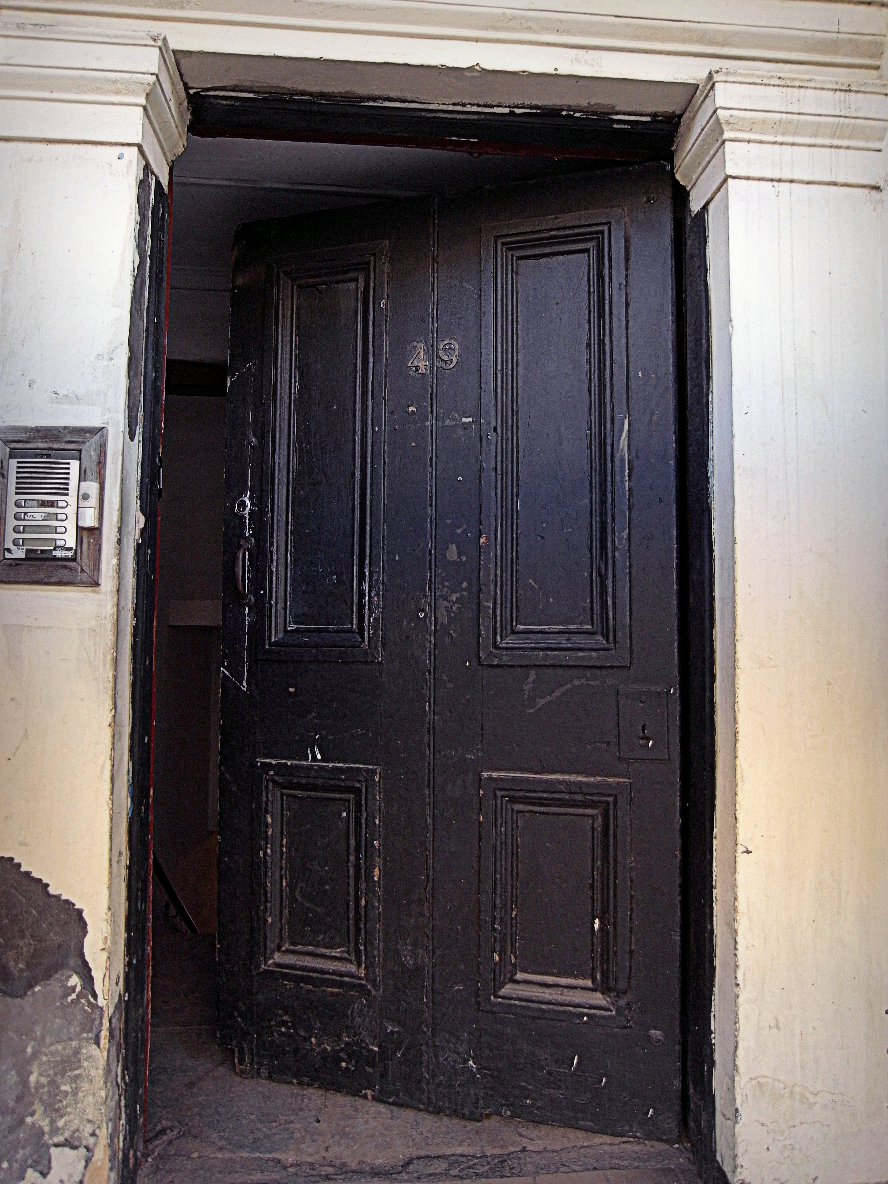 Glasgow. Woodlands. 49 West Princes Street. Door of Marion Gilchrist's house. Marion Gilchrist, a spinster, aged 83 was bet to death in a robbery in December 1908. Oscar Slater was charged with the murder of Gilchrist.